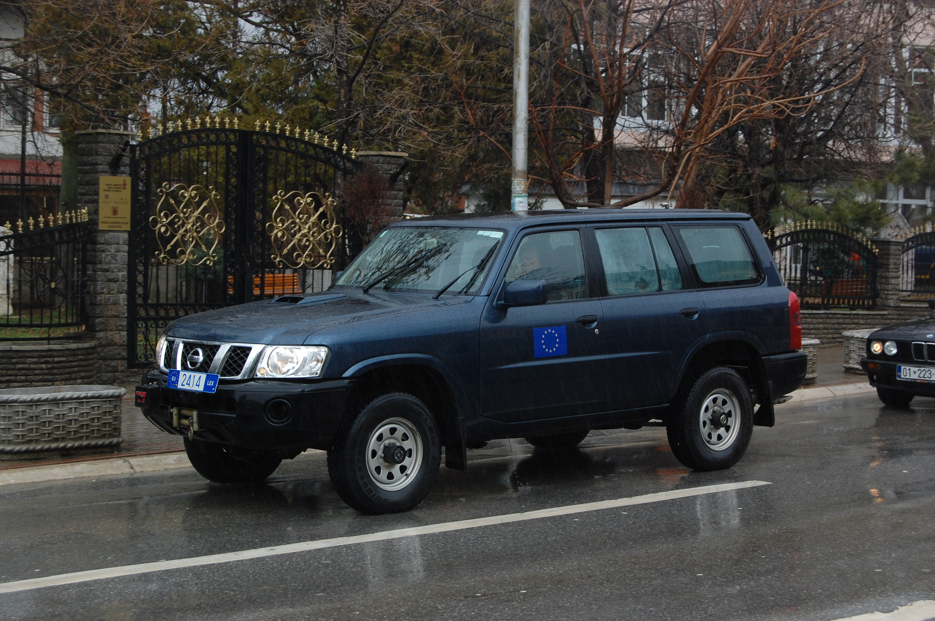 European Union registered Nissan vehicle '2414 LEX' outside the National Museum, Pristina, Kosovo.